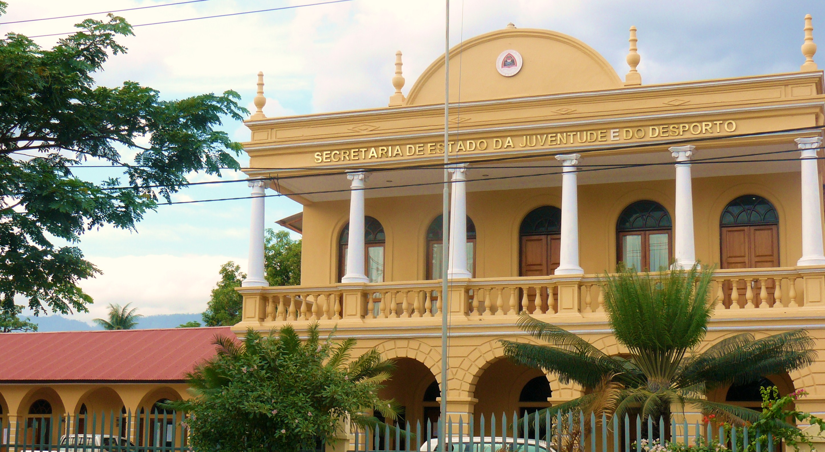 State Secretary of Youth and Sport, Dili, East Timor